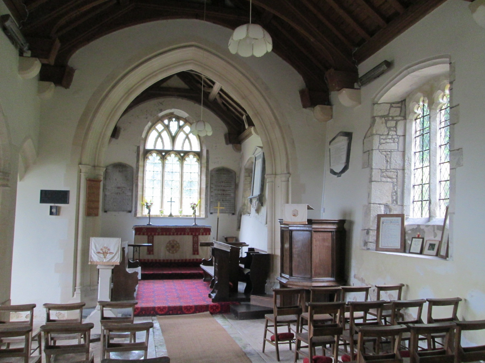 St Eustace's church, at Ibberton, Dorset; the interior, looking towards the chancel.